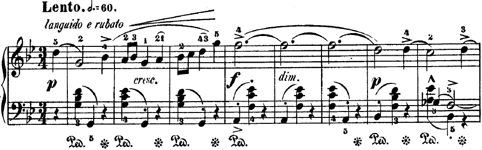 Opening bars of Chopin's Nocturne Op 15, No 3